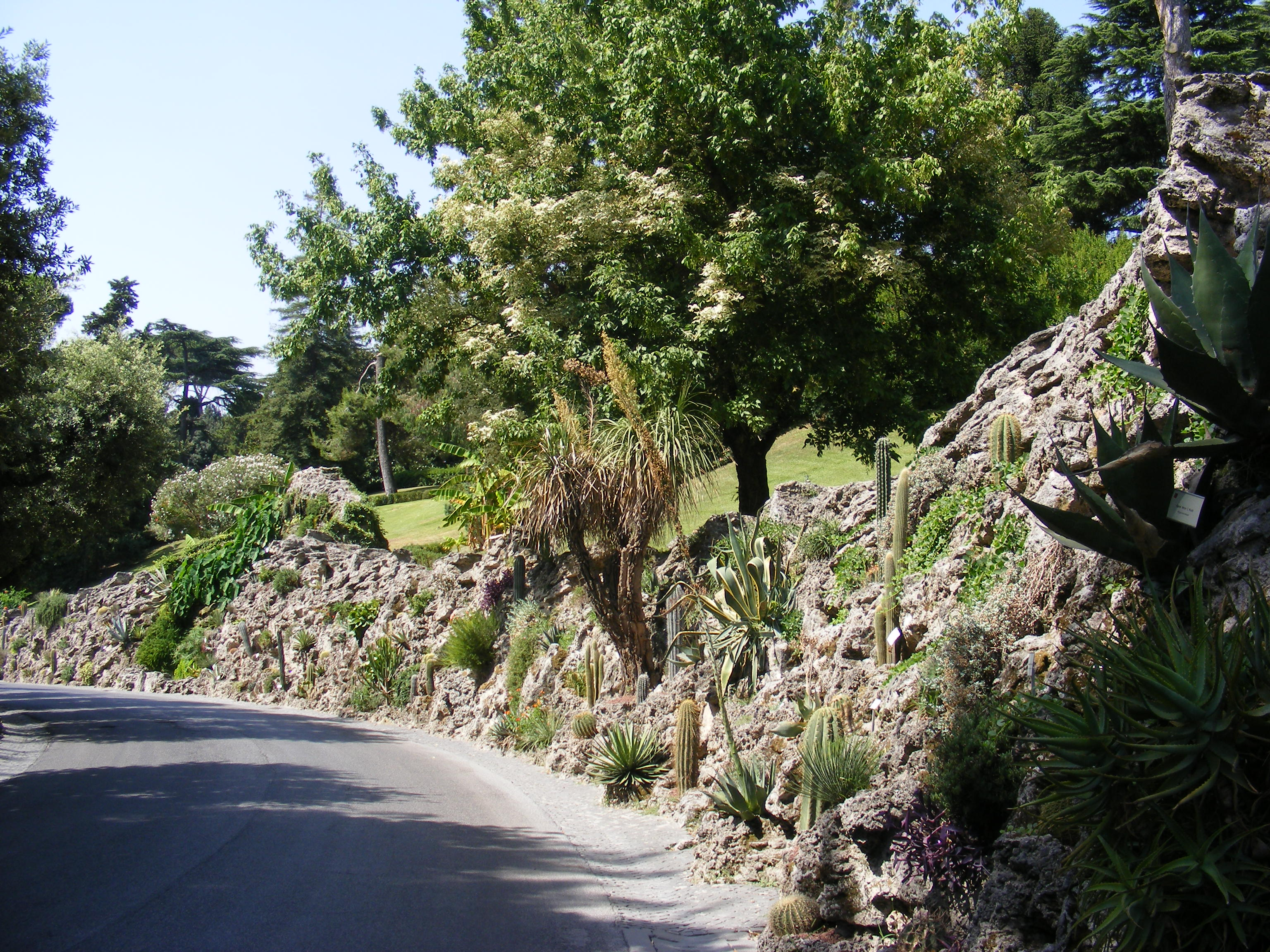 Rock garden with Cactaceae in the Vatican Gardens (Giardini Vaticani), stretching 200 metres along the Via dell'Osservatorio.